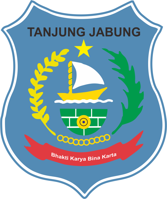 Logo of Former Tanjung Jabung Regency